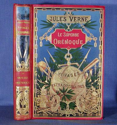 Cover of a book published in 1898 by an author (Jules Verne) who died in 1905. According to both United States and French copyright law (French author), this book is in the public domain.